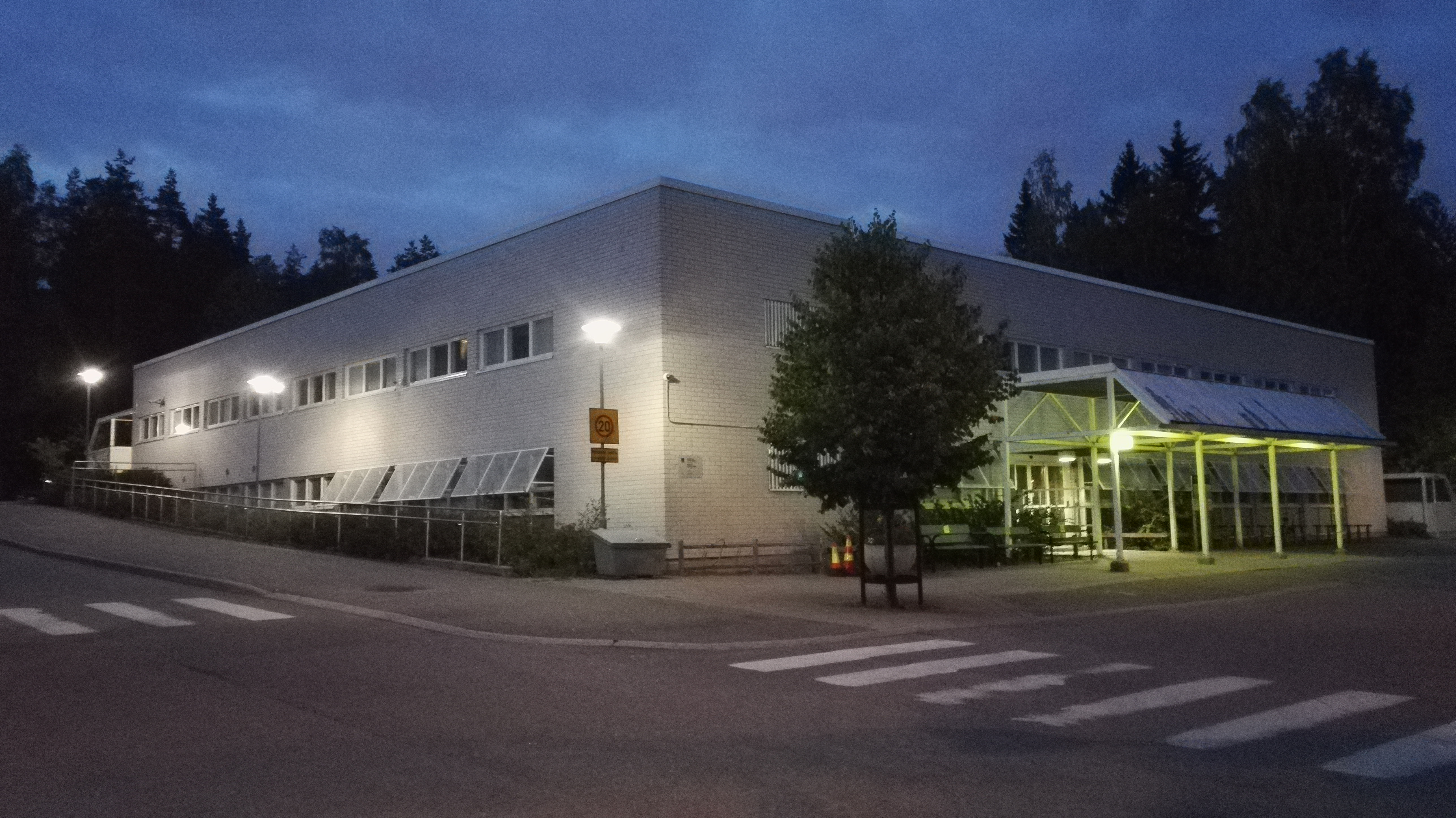 Health centre in Helsinki, Finland.